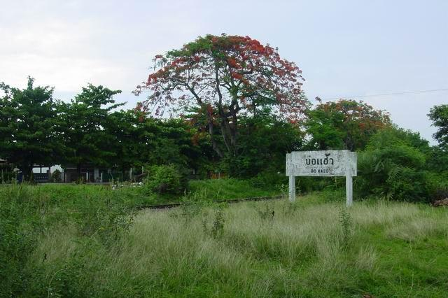 Bo Haeo abandoned railway halt in Lampang Province, Thailand